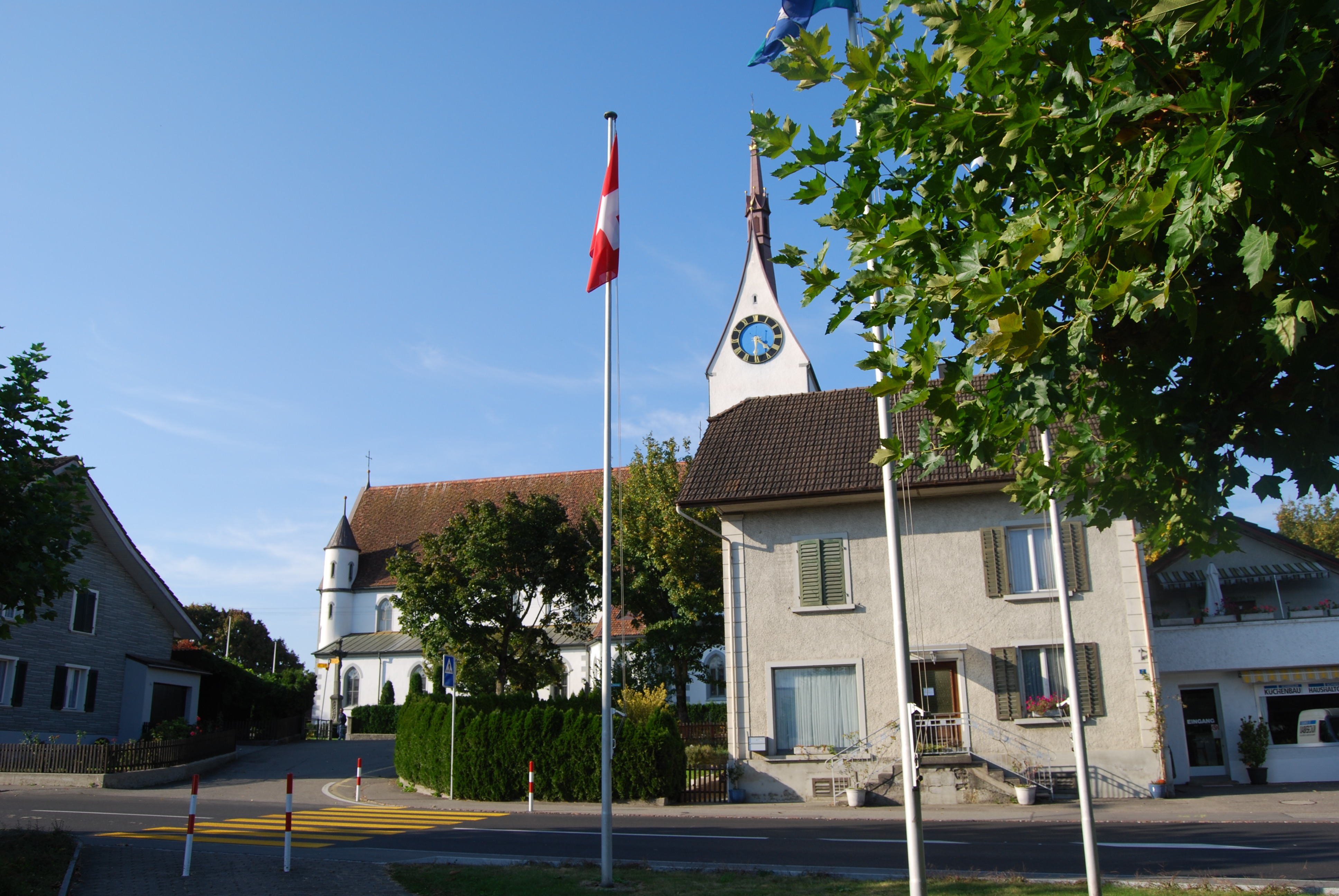 Church of Merenschwand, canton of Aargau, SwitzerlandEsperanto: Preĝejo de Merenschwand, Kantono Argovio, Svislando